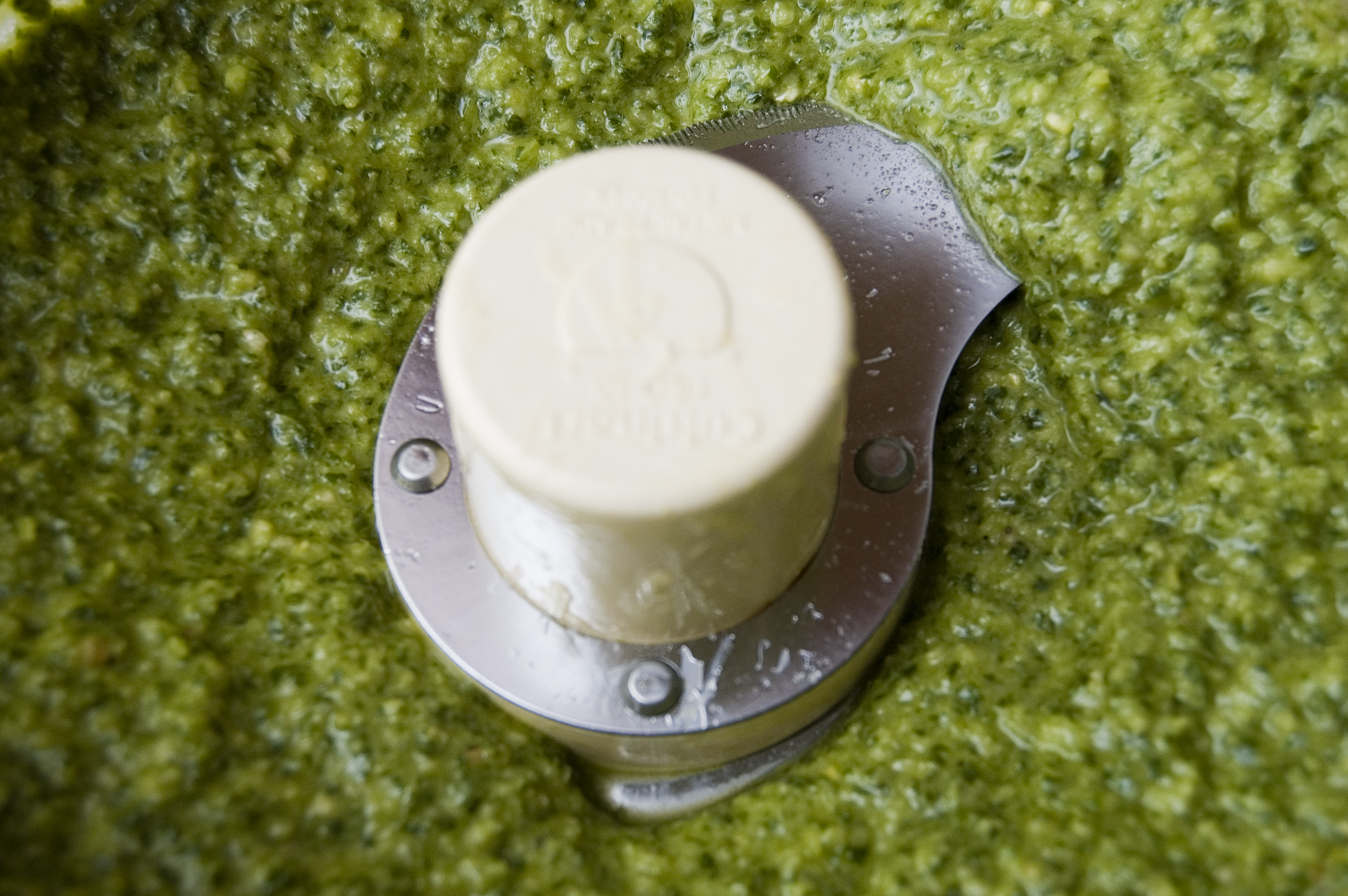 Pesto being processed.